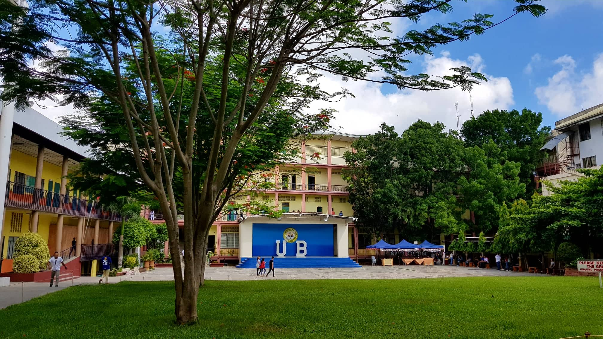 A premier university transforming lives for a great future .